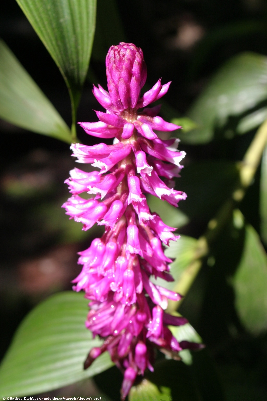 A terrestrial Orchid (Elleanthus robustus).